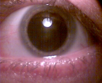 Pupil of eye dilated with eye drops for retinal examination.